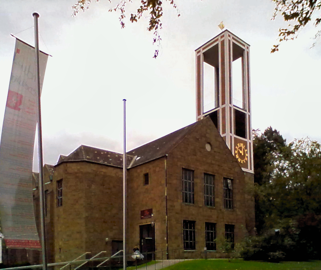 "Church of the Resurrection" in town of Bad Oeynhausen, District of Minden-Luebbecke, North Rhine-Westphalia, Germany.